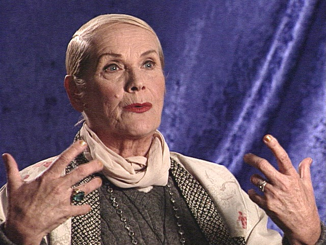 Maila Nurmi aka Vampira as she appeared in the 2001 documentary SCHLOCK! The Secret History of American Movies ©2001 Protagonist Productions. Used by permission. Source: Protagonist Productions Date: 2000/2001 Author: Ray Greene/Protagonist Productions